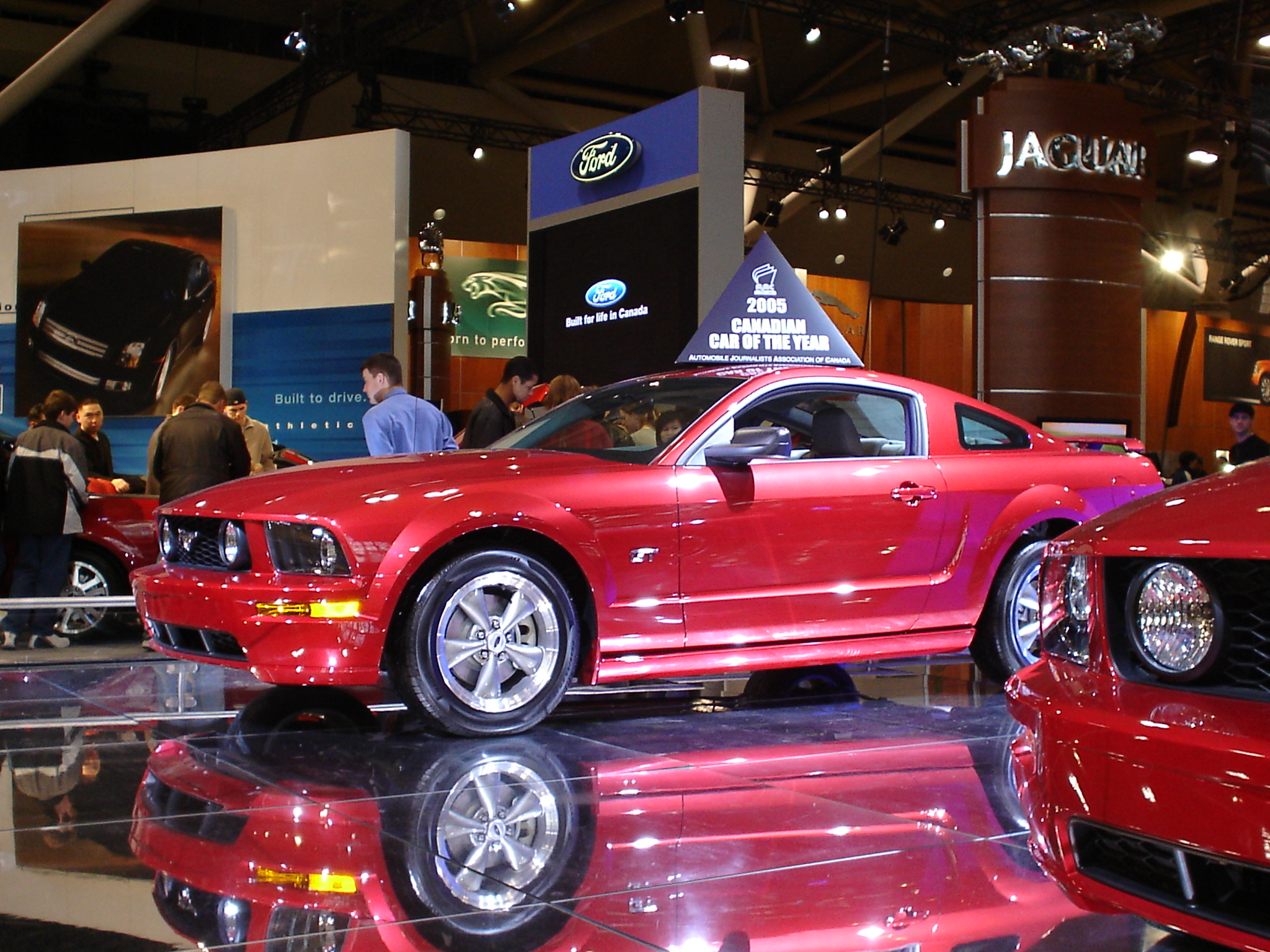 AJAC award given to the 2005 Ford Mustang at the Canadian International Autoshow, Toronto